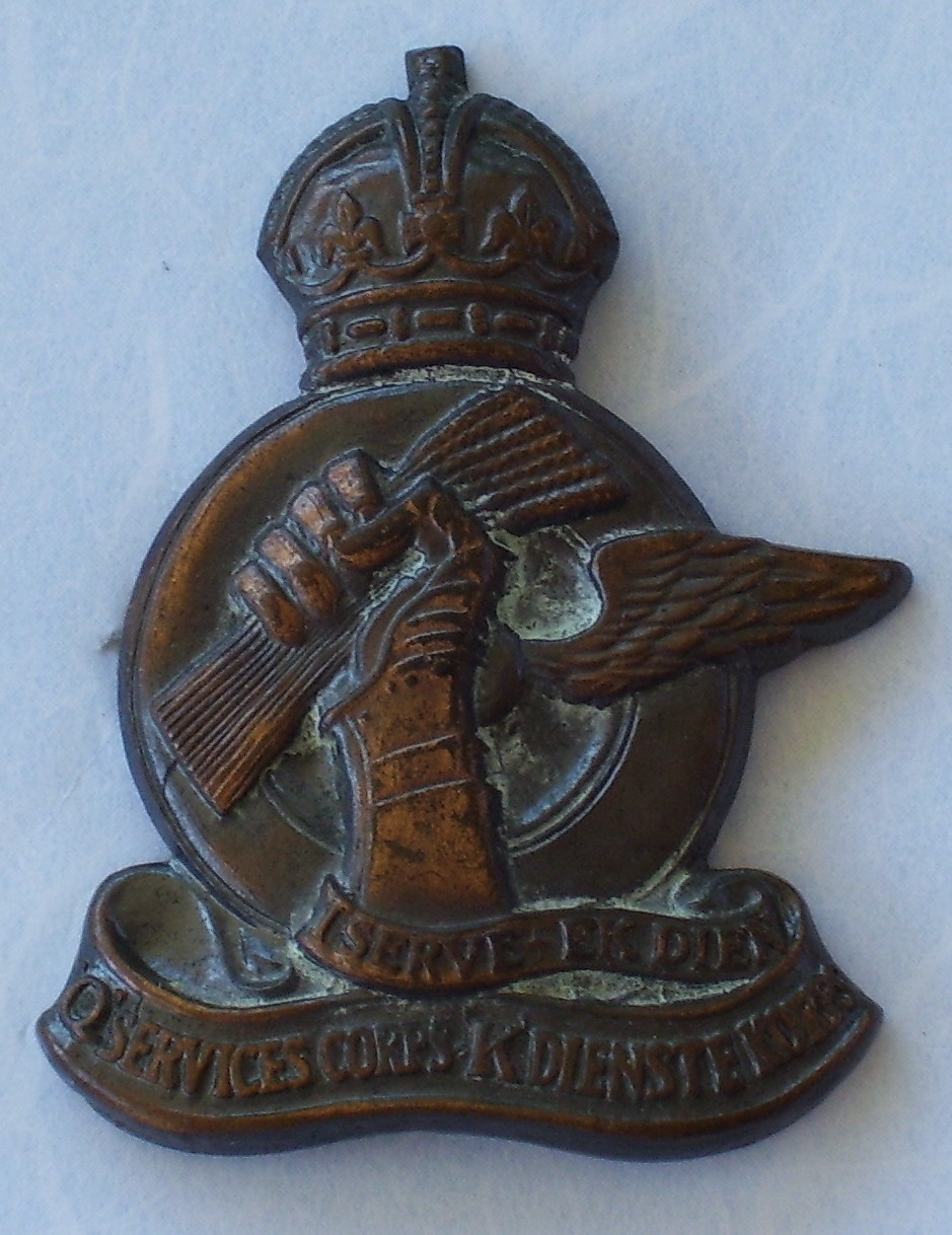 Cap badge of the South African Q Services Corps which replaced the earlier SA Ordnance Corps, the SA Service Corps and the SA Administrative, Pay and Clerical Corps in November 1939.